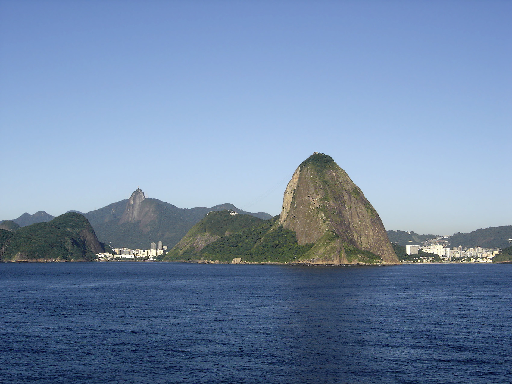 Rio de Janeiro : the Sugarloaf and the Corcovado seen from the sea.